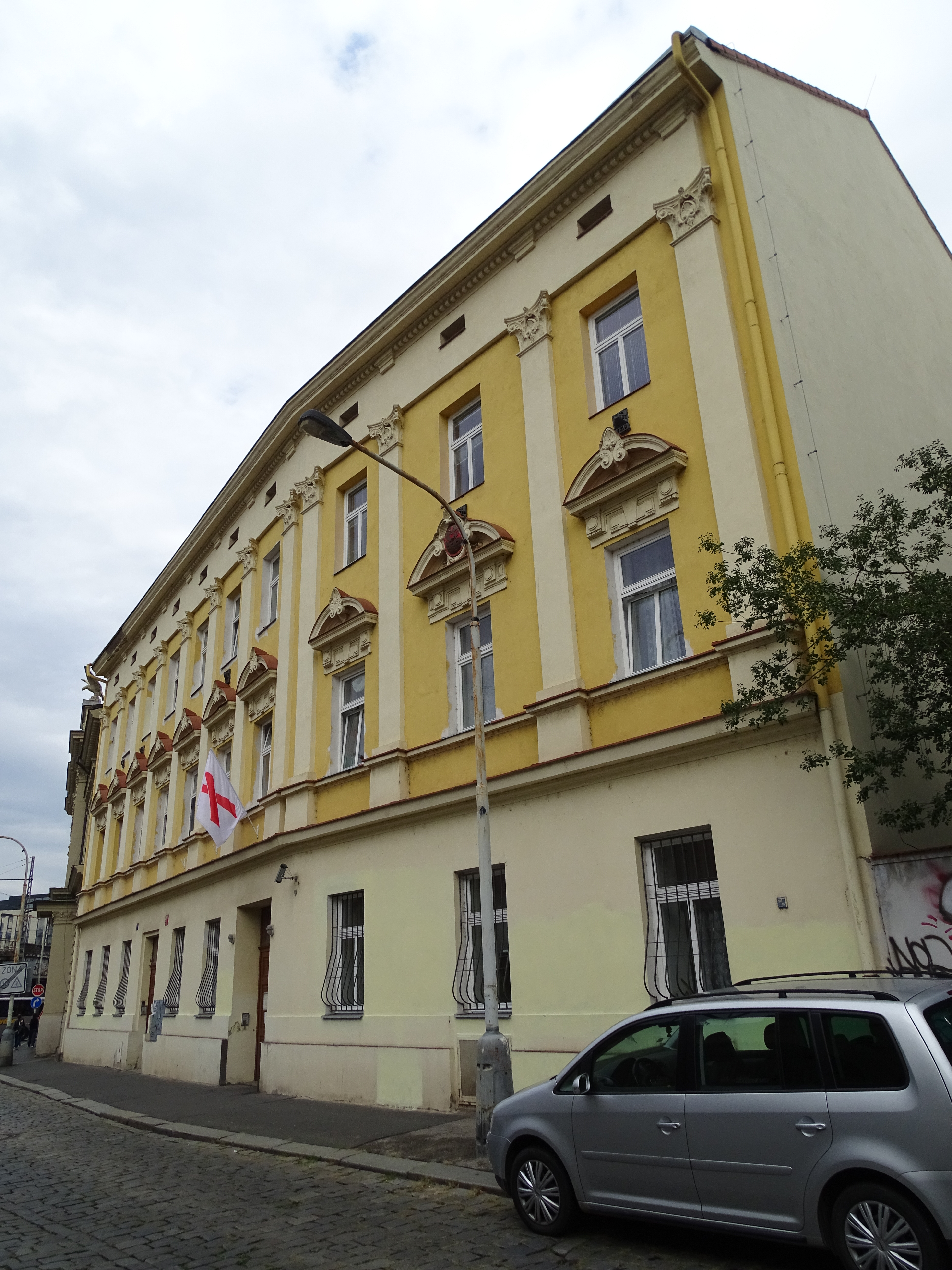 Prague-Karlín, Czech Republic. Malého 282/3, House of Light.